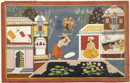 This painting illustrates the Bhagavata Purana, an ancient text dedicated to the Hindu god Krishna, who lived on earth as a prince. Before Krishna’s birth, his evil uncle Kamsa received an omen that he would be killed by a nephew, and had all his sister’s children killed. To avoid having their new baby meet the same fate, Krishna’s parents sent him away and presented Kamsa with a decoy infant who was actually a goddess in disguise. This painting shows Krishna’s mother sleeping with the decoy infant at the right, and Kamsa killing the infant by smashing it against a rock at the center. As soon as Kamsa kills the child, the goddess rises up from its body (seen here), and Kamsa knows that his nephew is still alive. The painting is from Mewar, the region surrounding the city of Udaipur, where a large workshop of artists made elaborate manuscript paintings that are flat and graphic but highly legible.